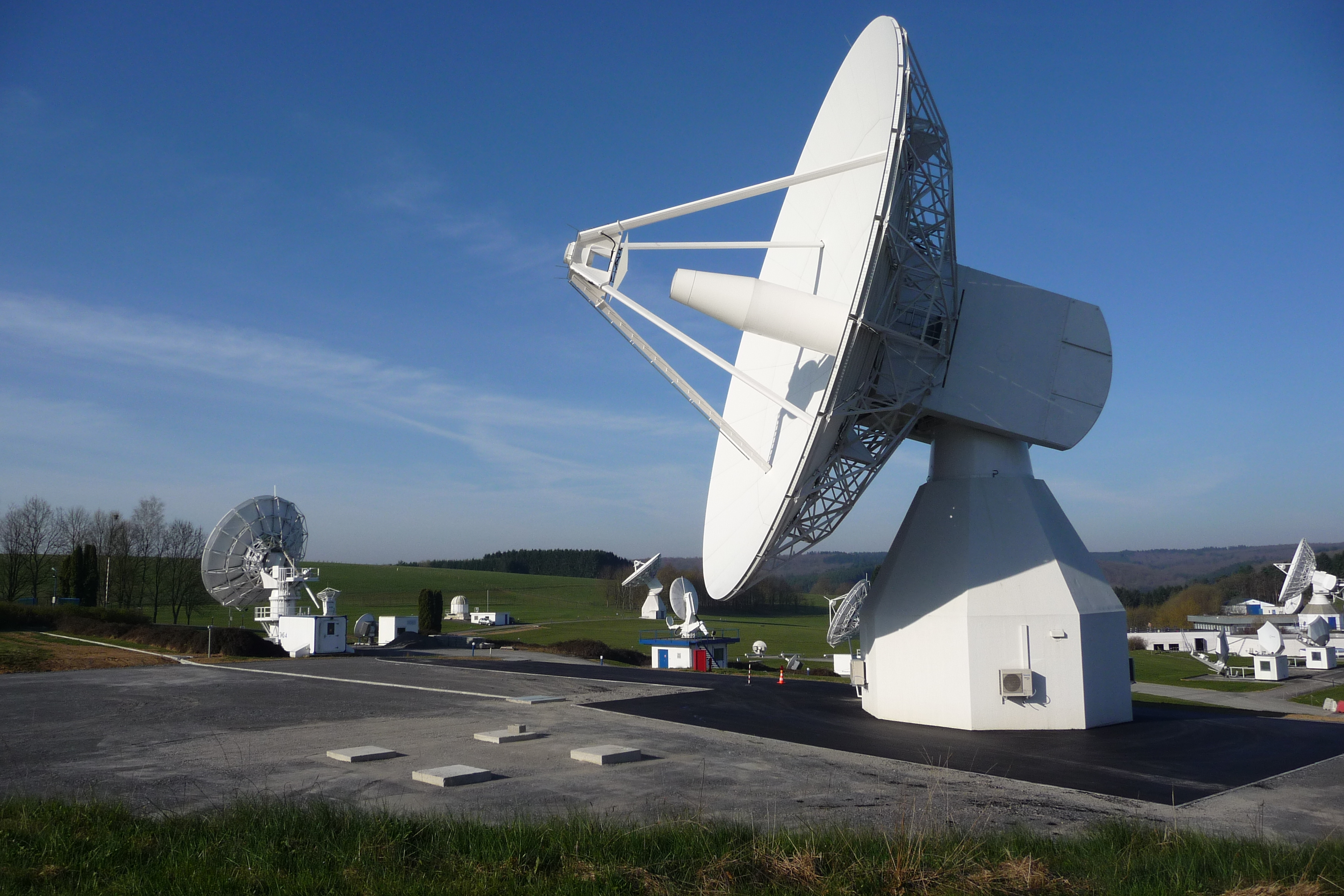 Galileo IOT L-band antenna at ESA's Redu ground station. Redu’s 20-m antenna plays an important part during in-orbit testing, allowing for high-resolution monitoring of the L-band navigation signal coming from each Galileo satellite.[1]